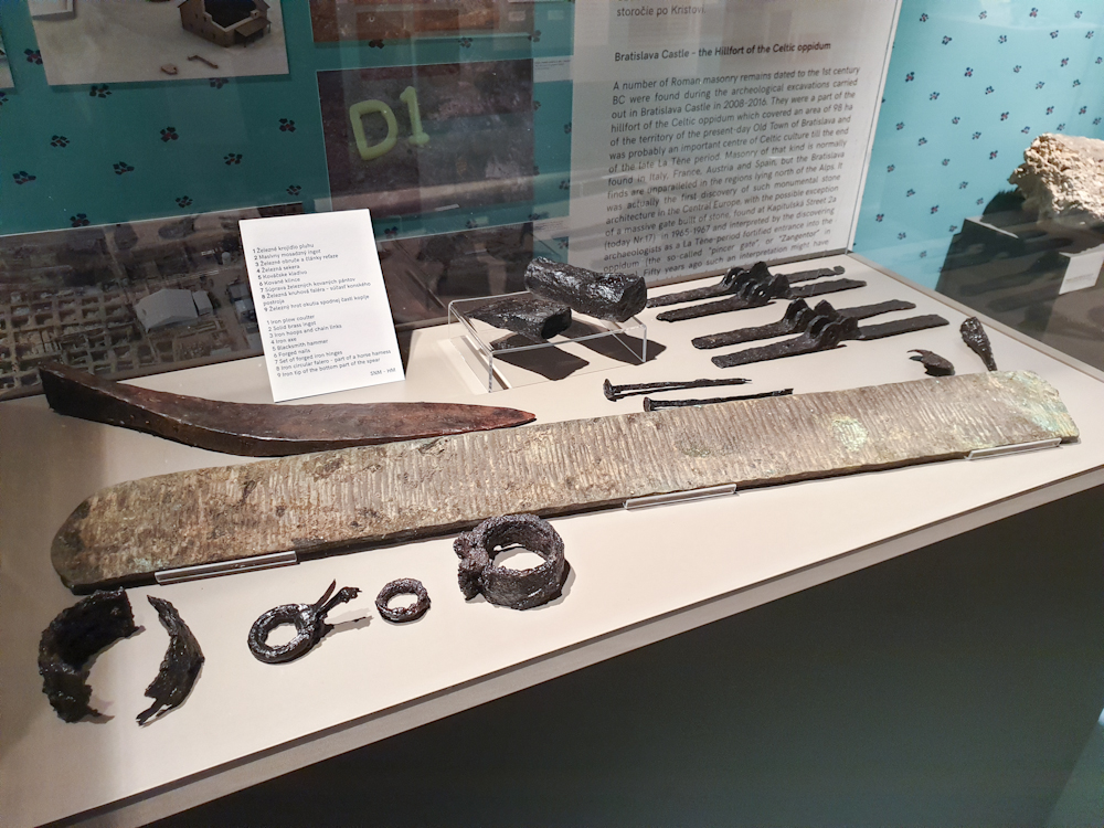 Celtic_iron_tools_in_the_Historical_Museum,_Bratislavalabel QS:Len,"Celtic_iron_tools_in_the_Historical_Museum,_Bratislava"label QS:Lhu,"Kelta vaseszközök a pozsonyi Történelmi Múzeumban"